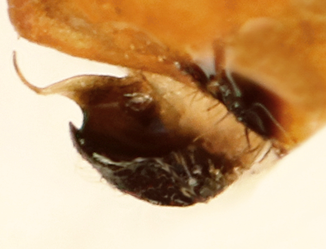 Excitaror of Anthocomus fasciatus from above and a little outside